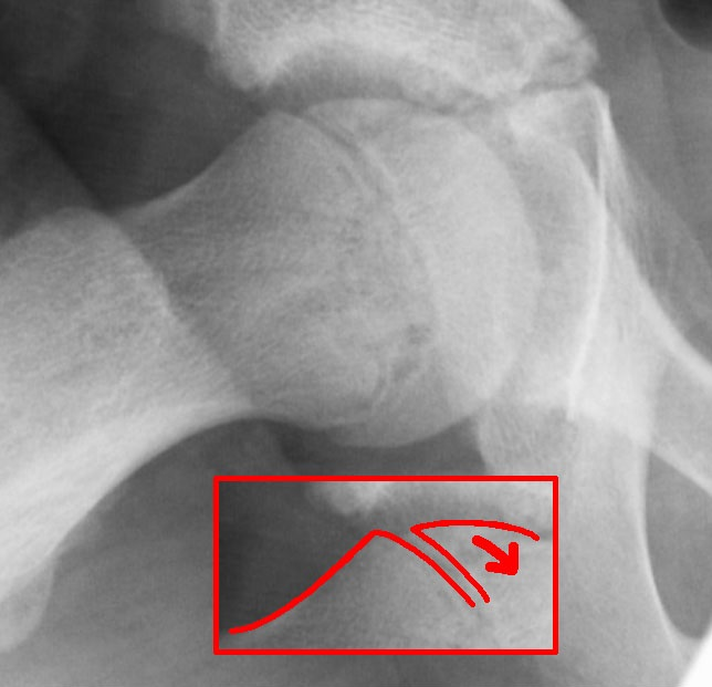 Slipped capital femoral epiphysis